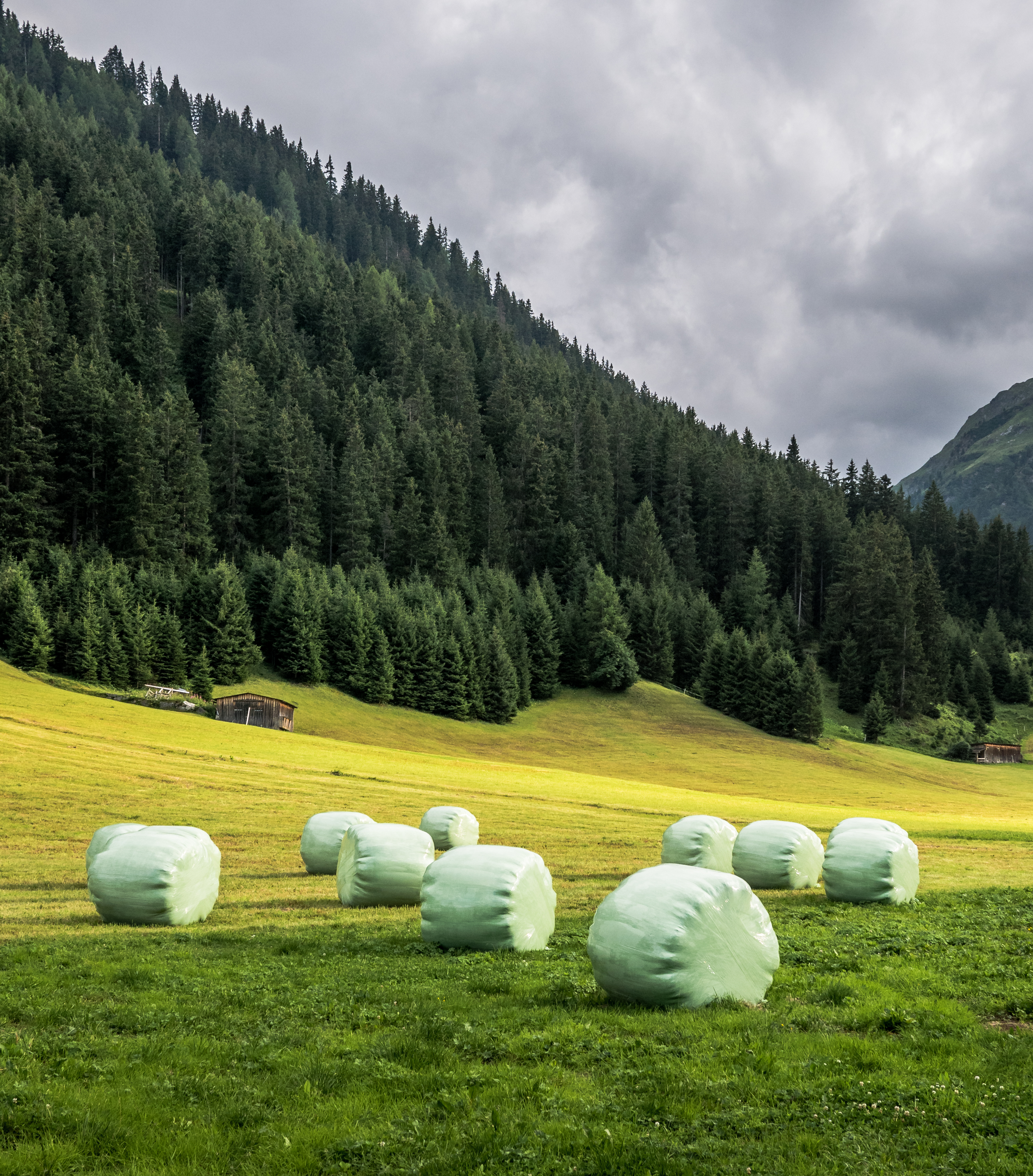 Green packed silage bales of hay in Galtür. Paznaun, Tyrol, Austria